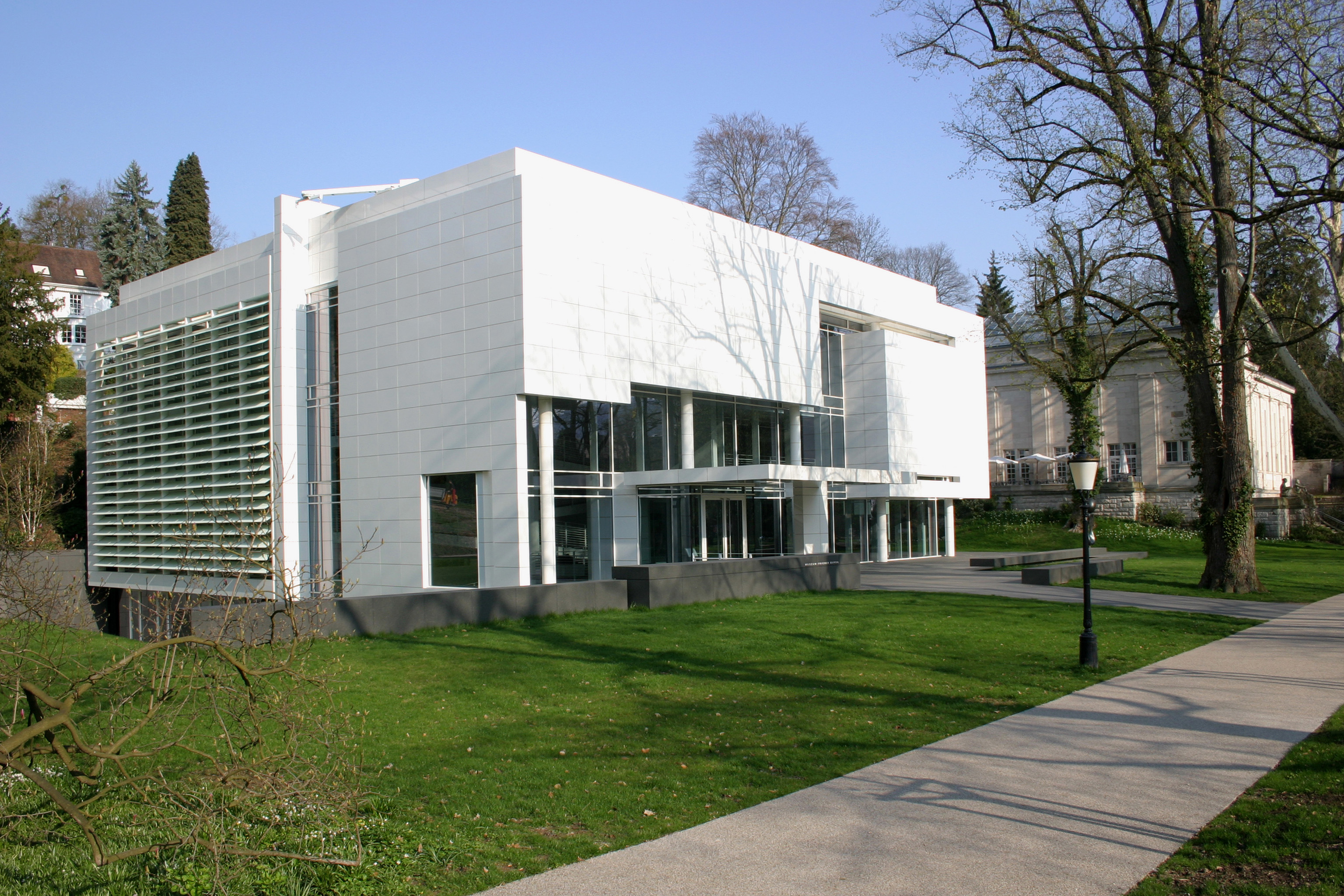 Museum Frieder Burda, Baden-Baden, Germany.